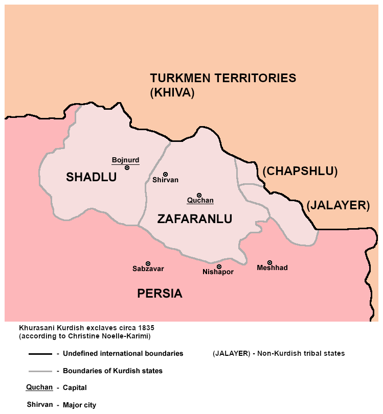 Khurasani Kurdish exclave circa 1835 (according to Dr Michael Izady).